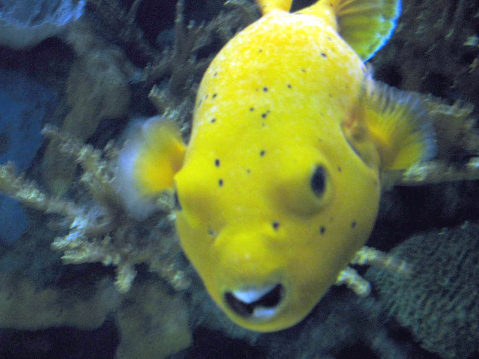 Yellow fish in the aquarium